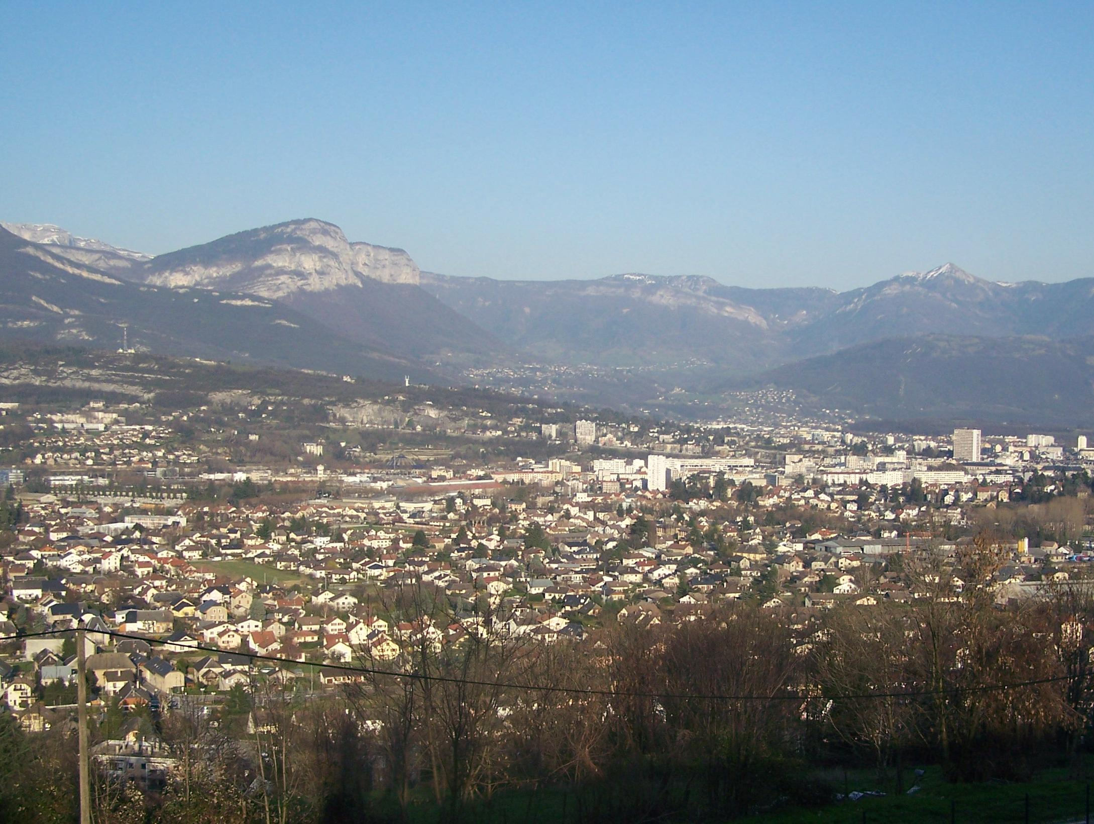 The Chambérian basin, seen from heights Cognin, Savoie, France.